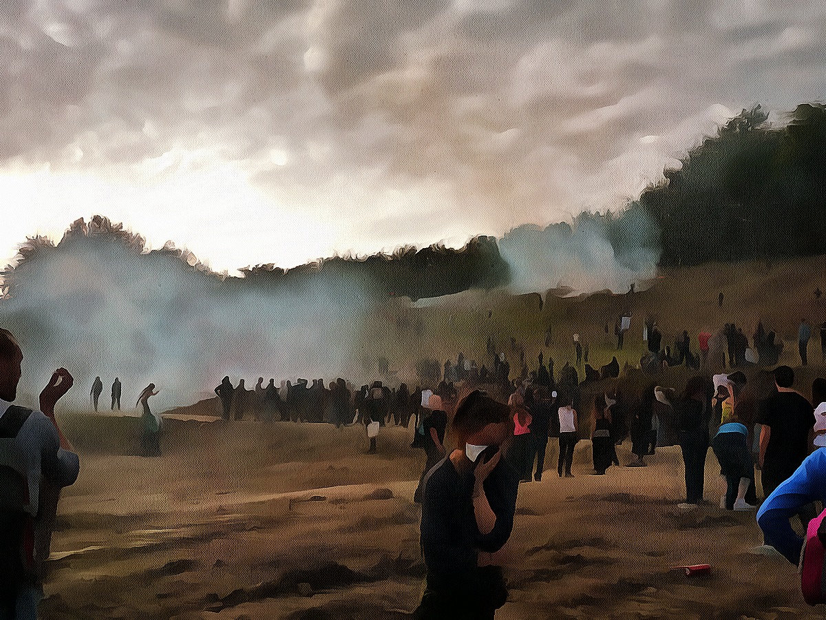 protests against Sivens water reservoir.